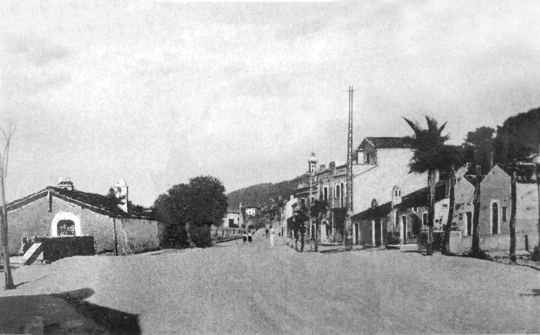 San Menaio main street (waterfront)1920